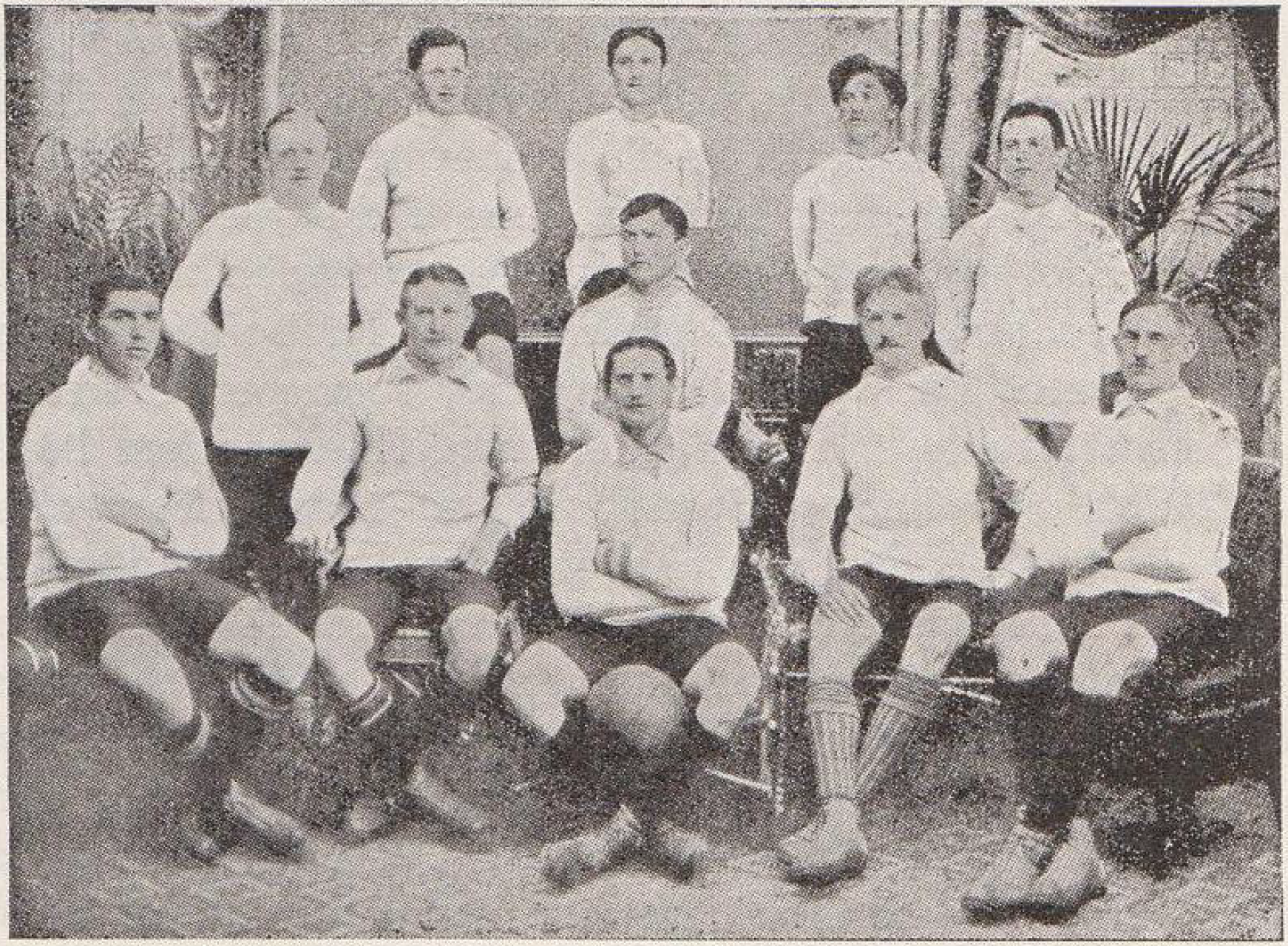 Team line-up of Boldklubben Union, Svendborg — Group photo of the first senior men's team players of the club following their 1909-10 Funen FA's Førsteholdsrække league championship.